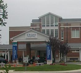 Cropped image of Image:Jordan Hospital Plymouth, MA.JPG